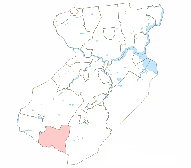 Description: Map of Cranbury Township in Middlesex County, New Jersey Source: User:Schzmo (own work, Dec. 2006) Adapted from Image:Middlesex County, New Jersey Municipalities.png by Jim Irwin